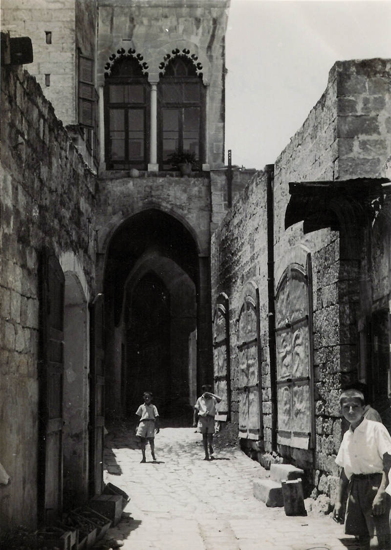 Ancient Market, Archeological sites of Israel